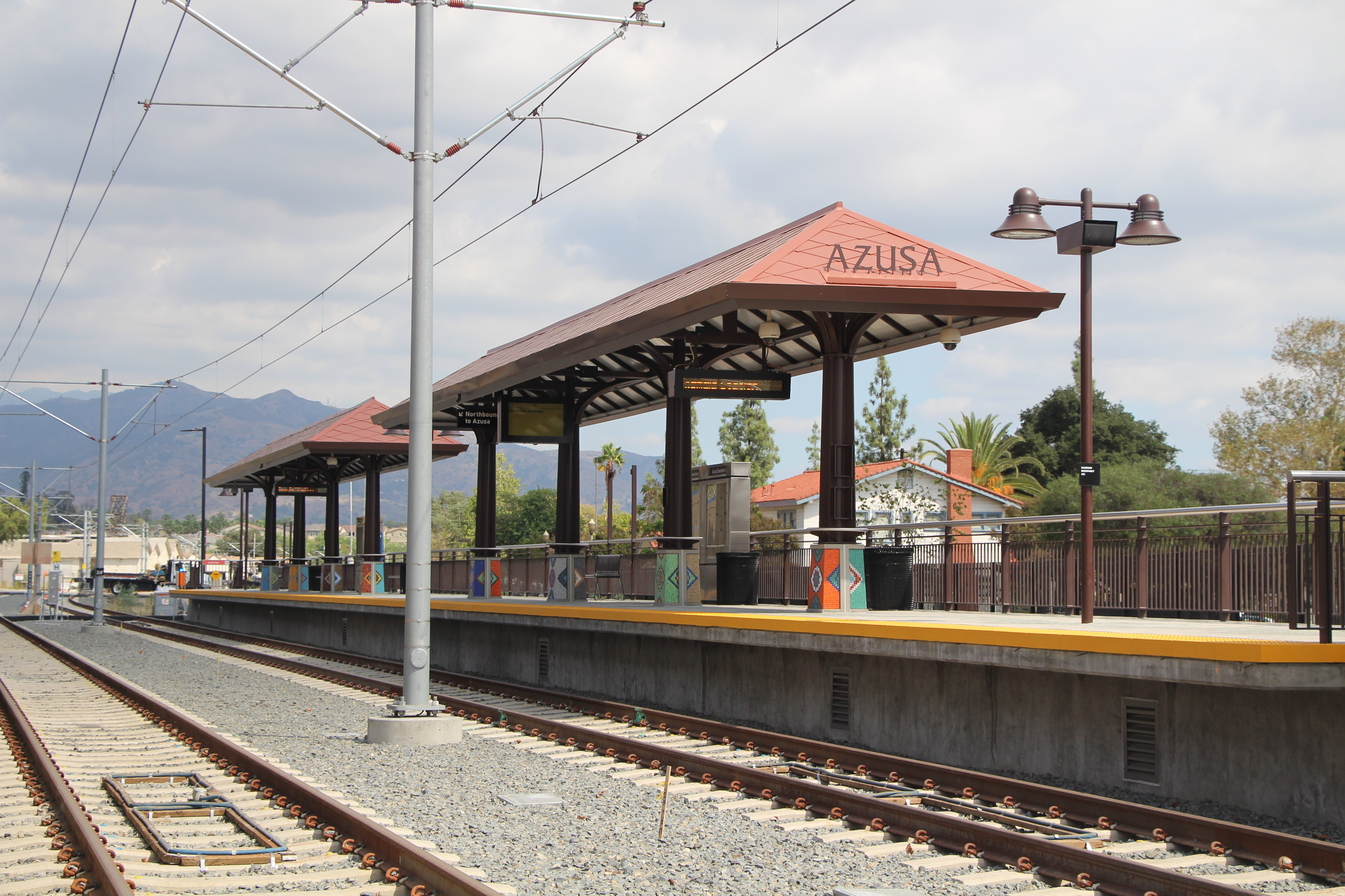 This is a photo of Azusa Downtown station on the LACMTA Gold Line.